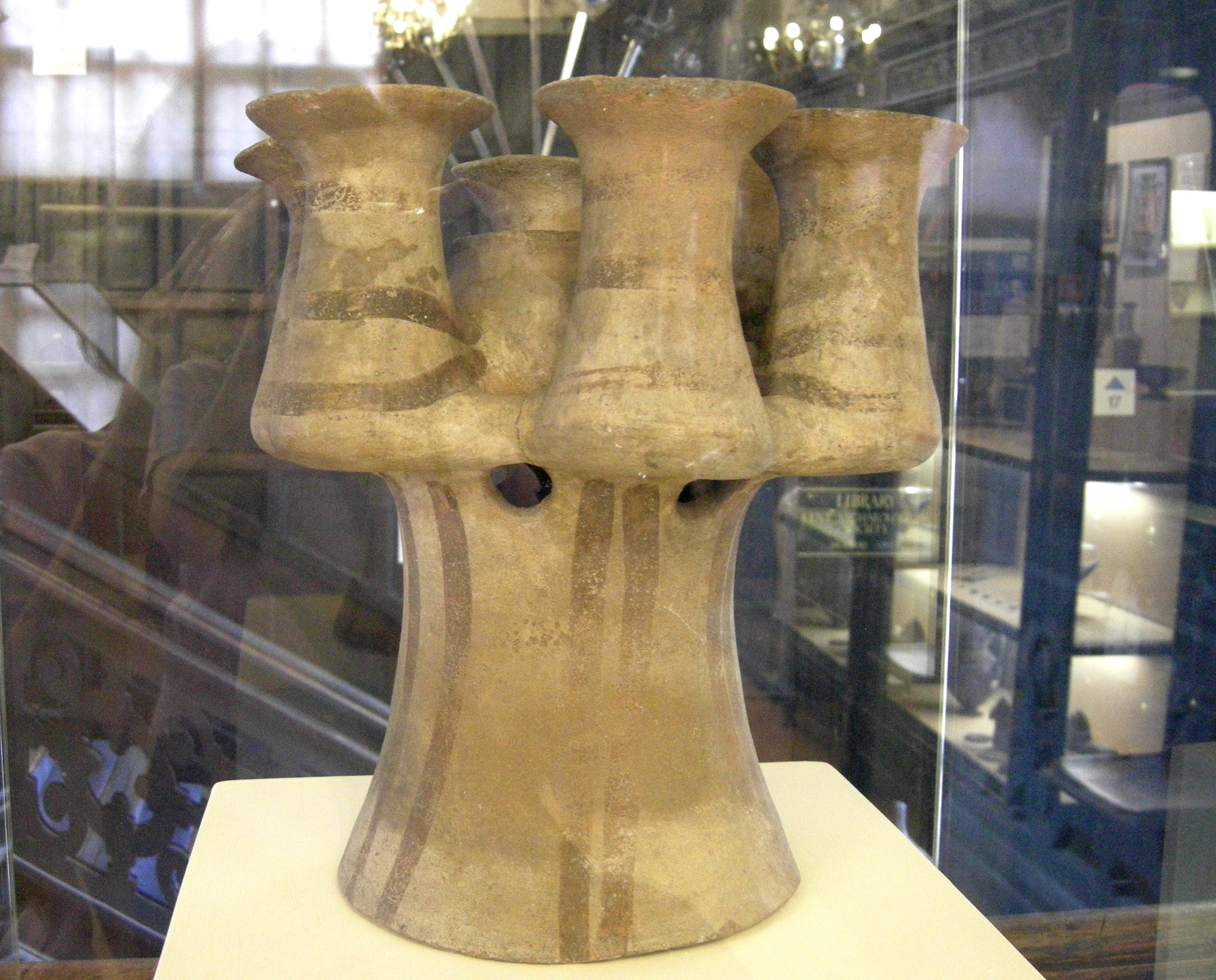 Maidstone Museum's Kernos, a 4000-year-old pot of the early Cycladic III period, from Melos in Greece. Thought to be an offerings cup for honey and oats. In Maidstone Museum, Kent, England. Photographed through glass.